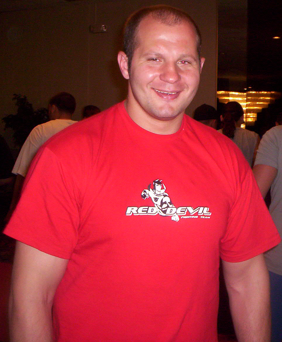 Fedor Emelianenko in a seminar in New Jersey, mid 2006.